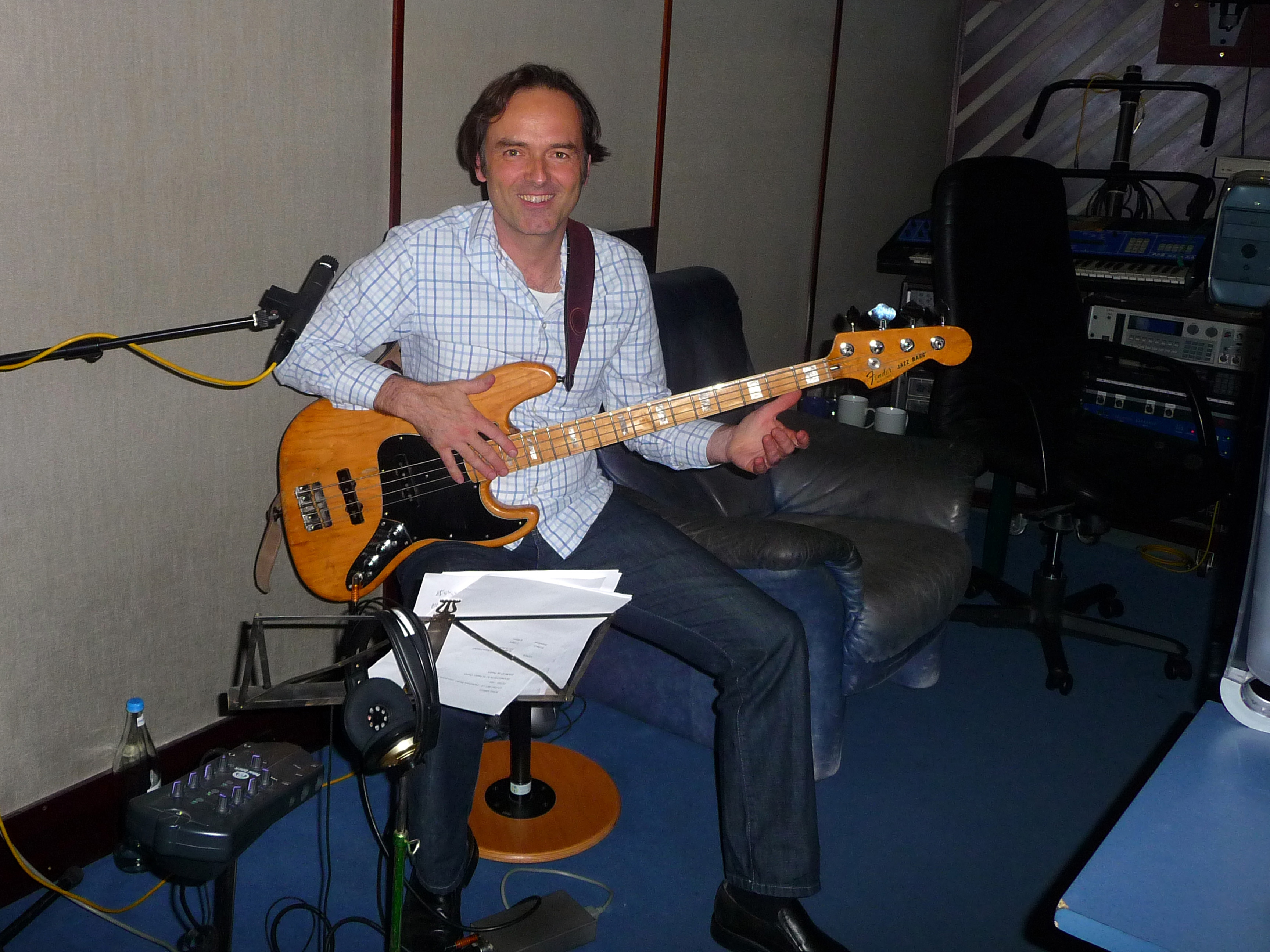 Patrick Scales in the studio recording the bass tracks for the CD Tenoration of Pee Wee Ellis